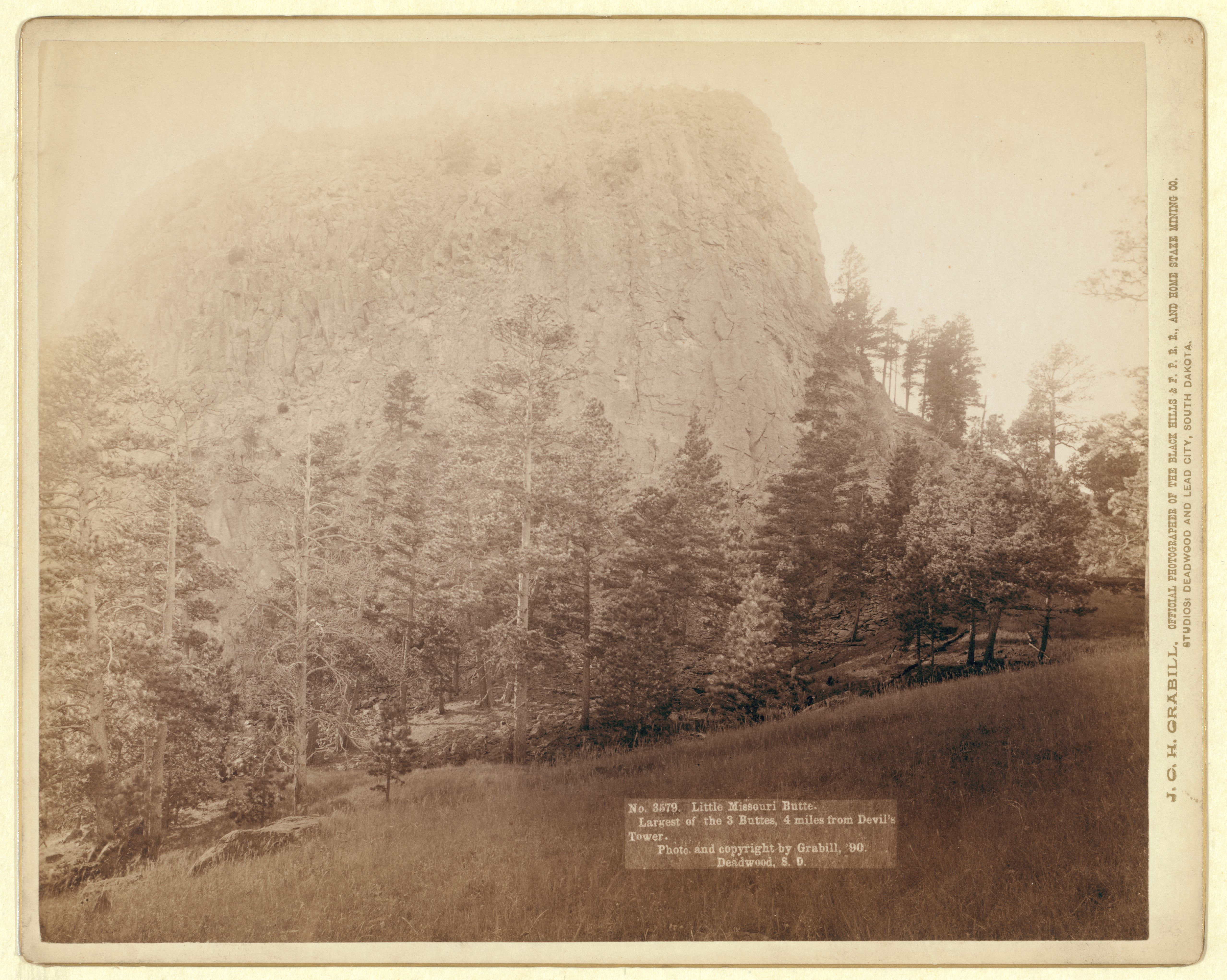 Original title Little Missouri Butte. Largest of the 3 buttes, 4 miles from Devil's Tower